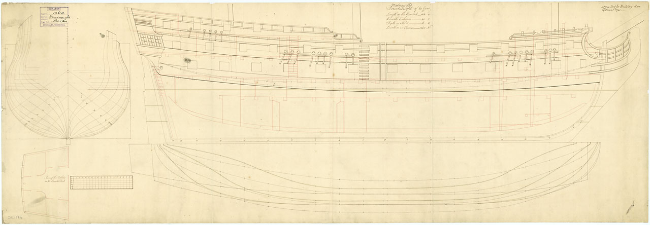 Dreadnought (1742); Medway (1742) Scale: 1:48. Plan showing the body plan, sheer lines with inboard detail, quarterdeck cabin plan, and longitudinal half-breadth for building Dreadnought (1742) and Medway (1742), both 1733 Establishment 60-gun Fourth Rate, two-deckers. DREADNOUGHT 1742